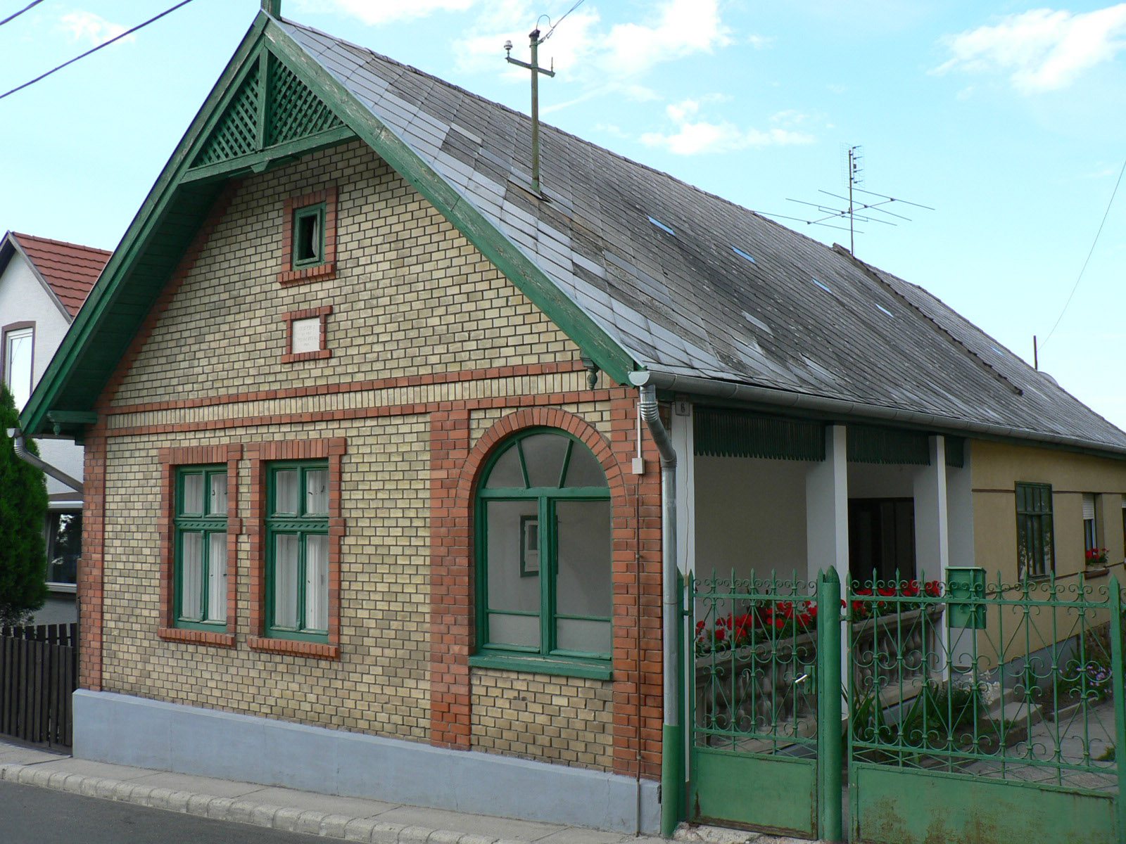 Régi parasztház a Kossuth utcában